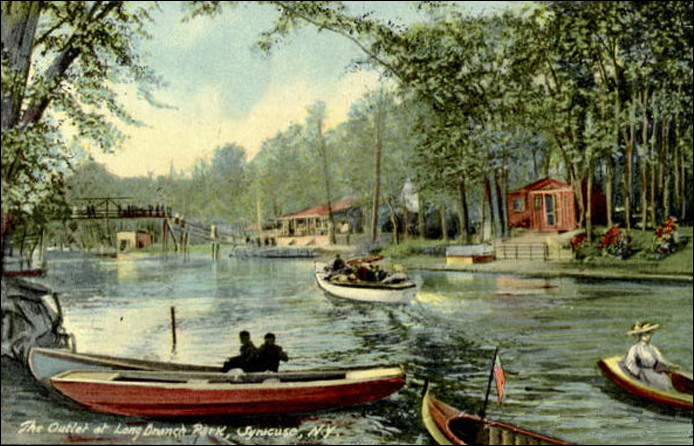 Long Branch Park on the shores of Onondaga Lake in Liverpool, New York c.1900